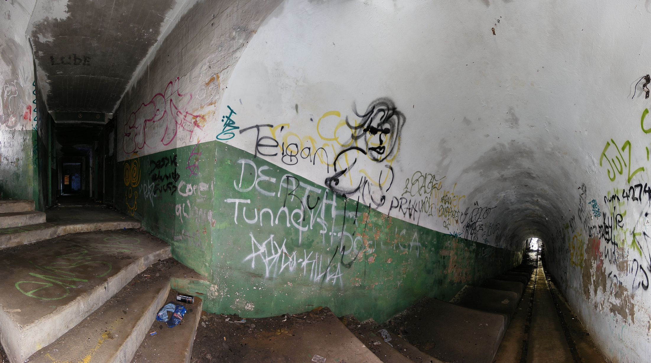 Illowra Battery or otherwise known as Hill 60. This is a 70 photo stitch, a record for myself